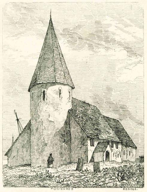 Etching by RH Nibbs (1816–93) of St John's parish church, Piddinghoe, Kent, seen from the southwest